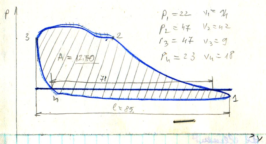 Experimental indicator diagram of a compressor taken with a mechanical indicator.